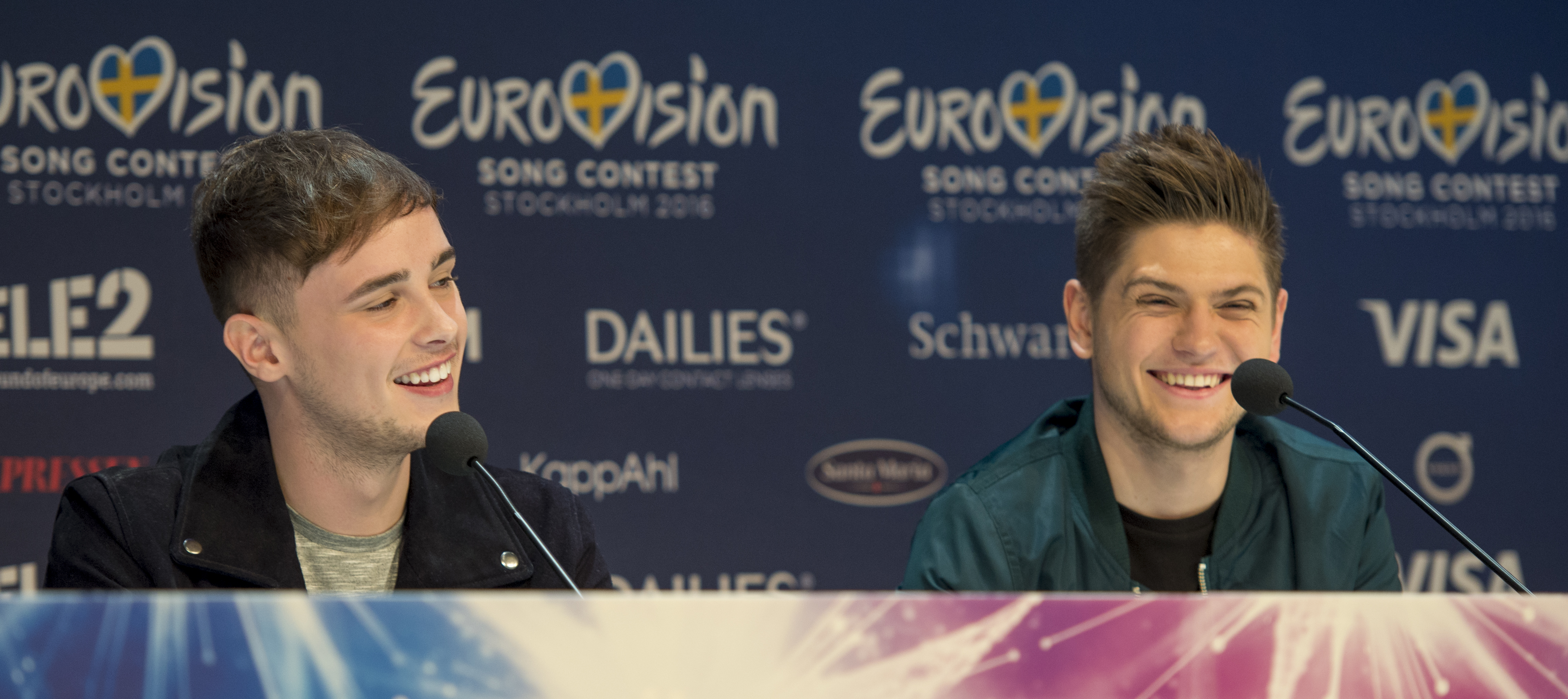 Joe & Jake at a Meet & Greet during the Eurovision Song Contest 2016 in Stockholm. (Help translate this text)